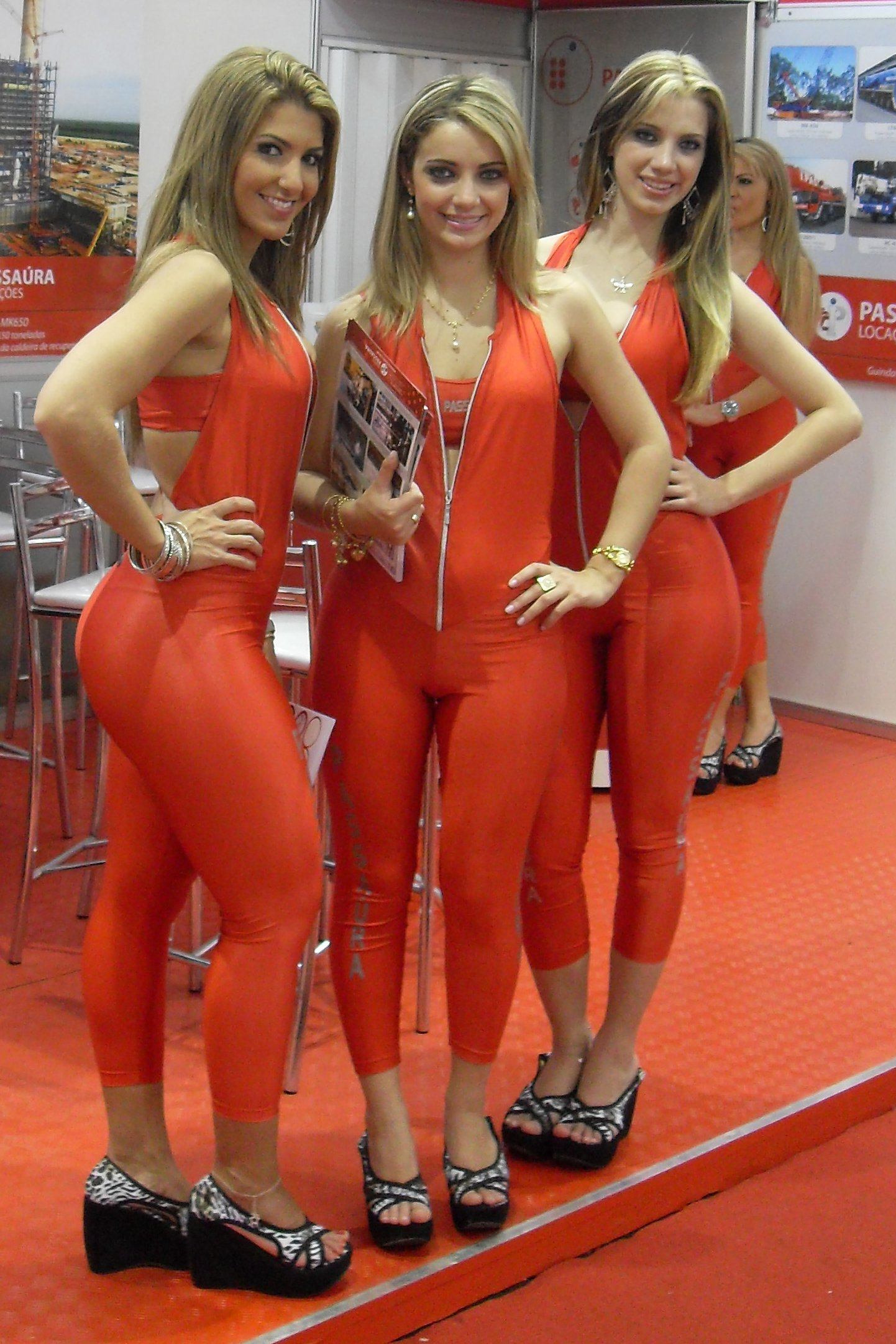 Promotional models on the Fenasucro fair in Brazil